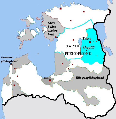 Bishopric of Dorpat